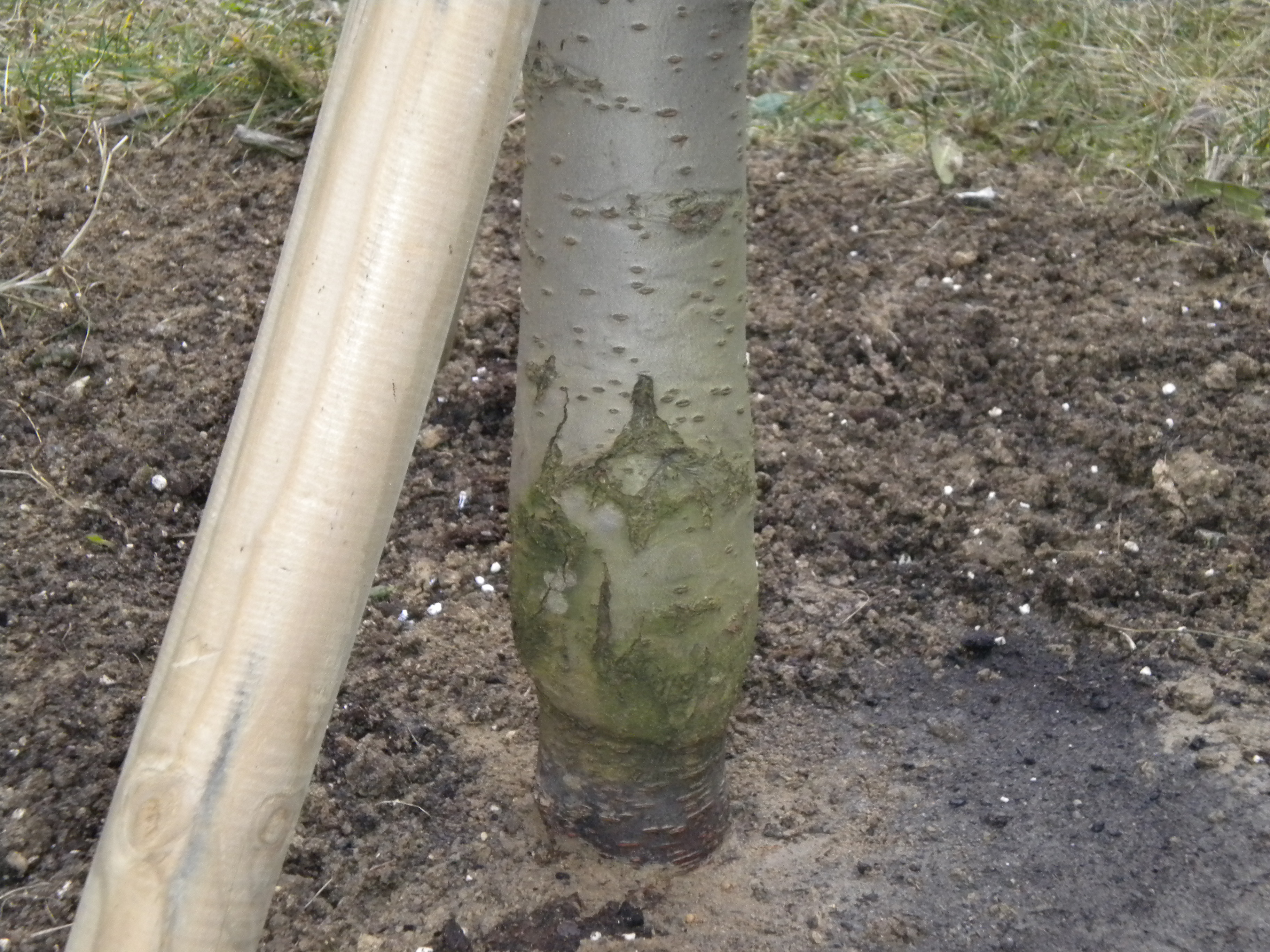 Coupling of plum (cultivar Regina Claudia yellow) to plum Cherry.